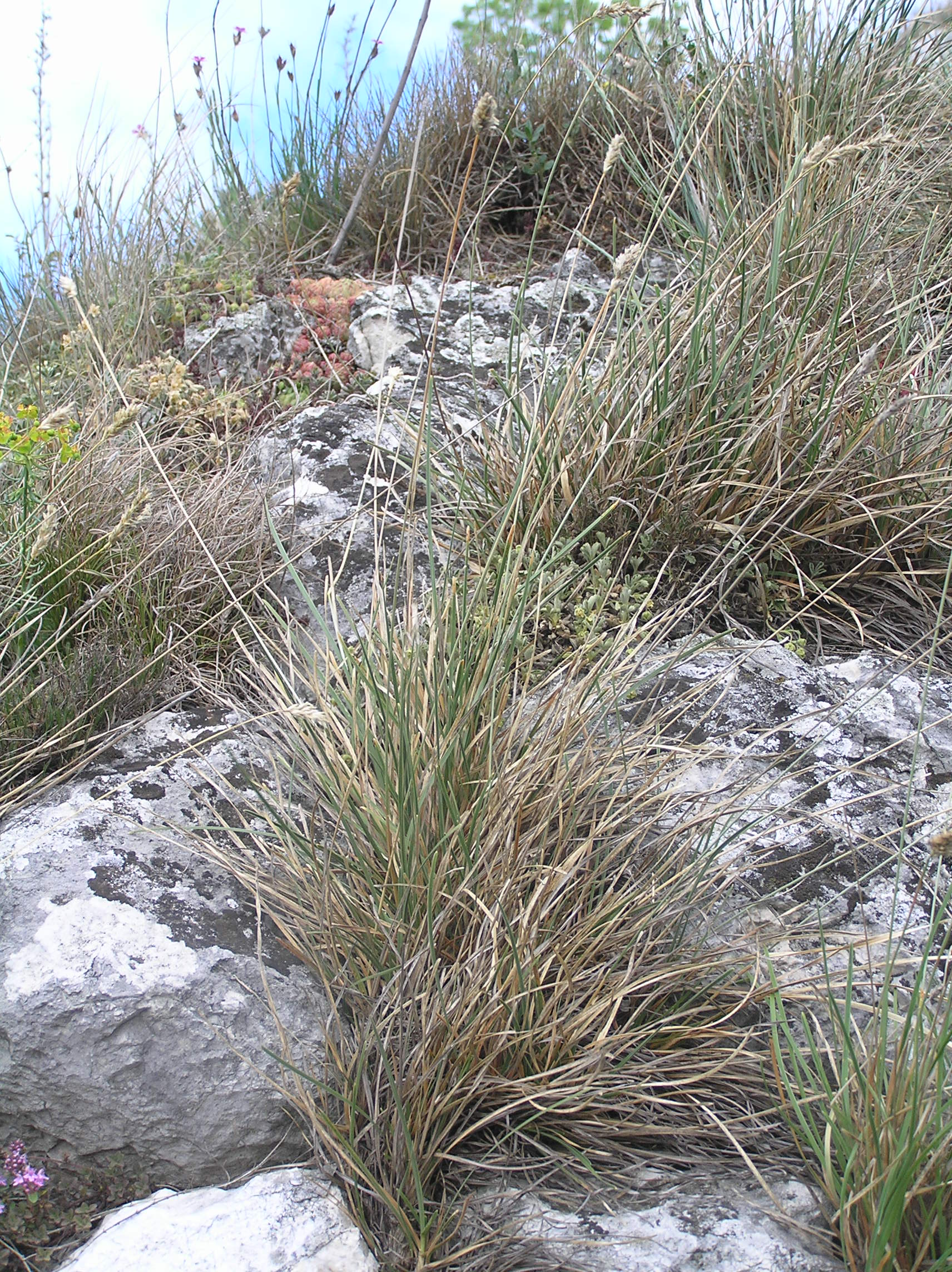 Sesleria caerulea, Svatý kopeček near Mikulov, Southern Moravia, Czech Republic